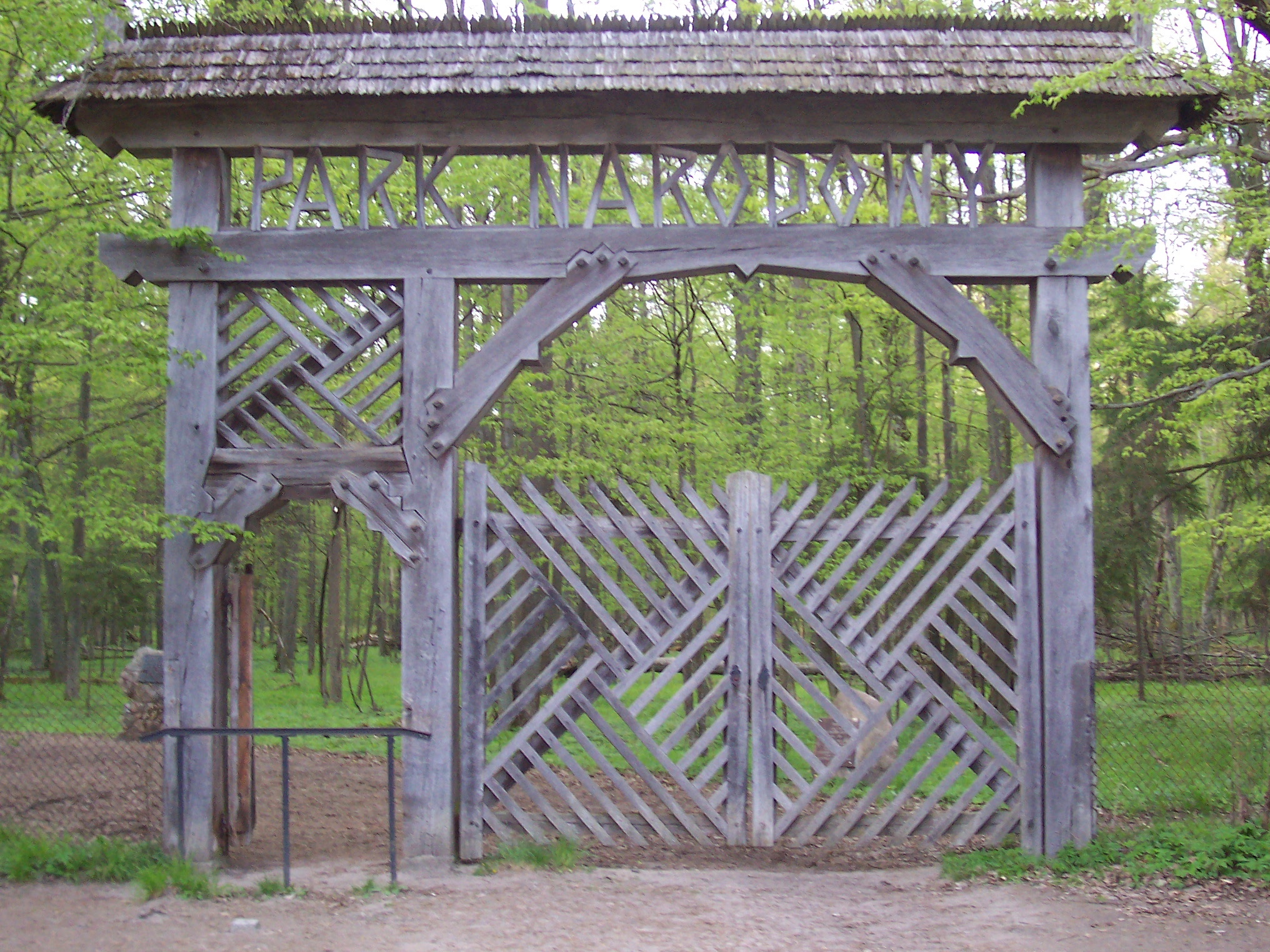 Białowieża Forest National Park